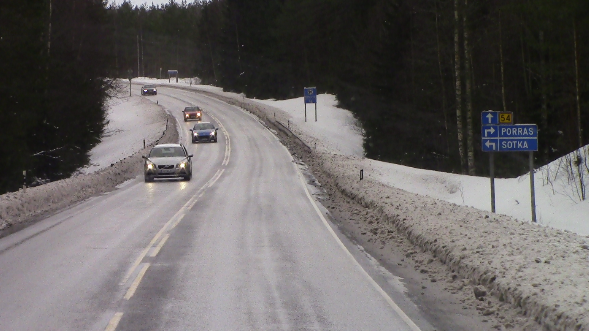 Finnish national road 54 at Hämeenlinna, near the crossroad of Härkätie. The road runs from Tammela to Lahti.